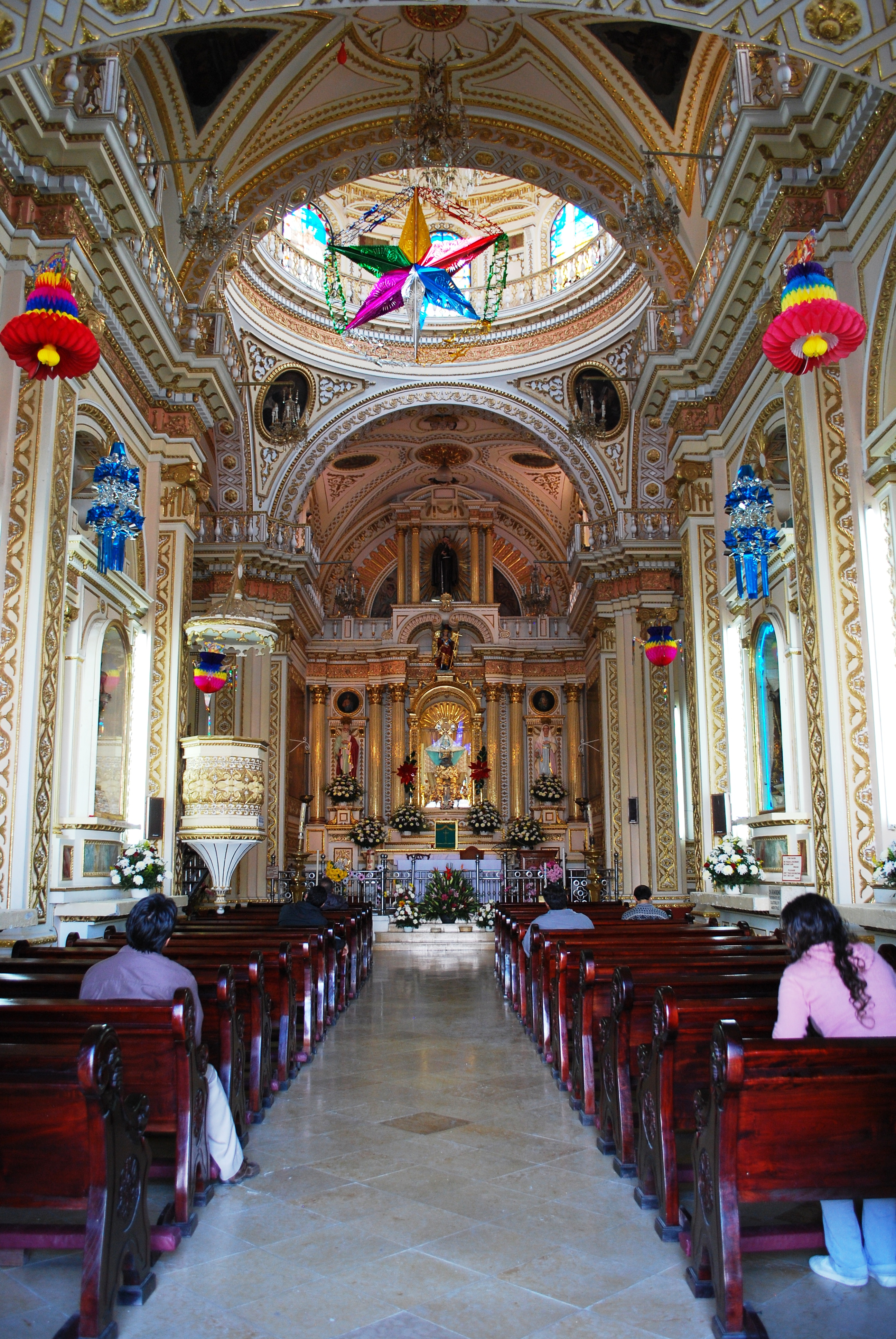 Nave of the Nuestra Señora de los Remedios church in Cholula, Puebla, Mexico